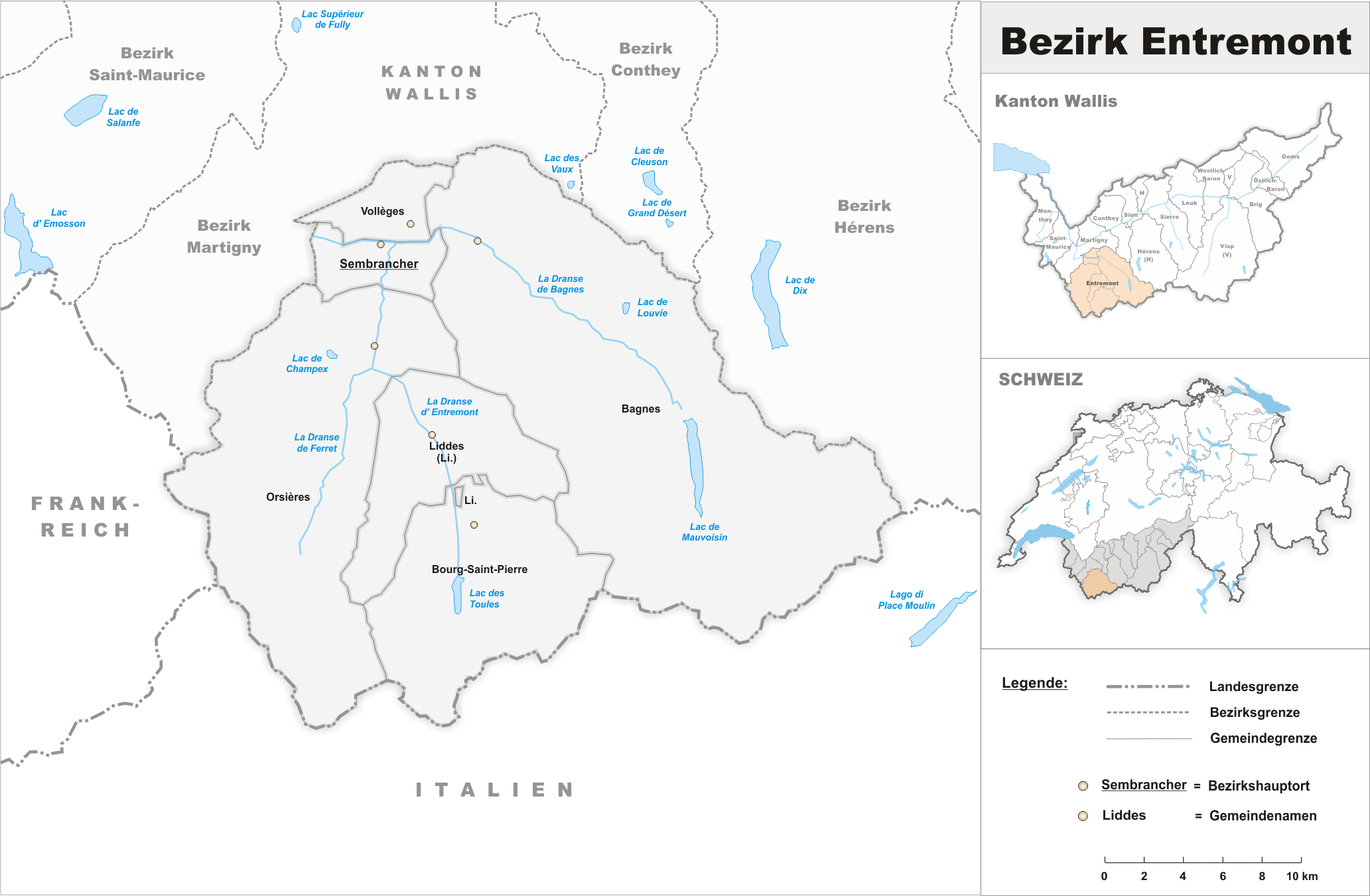 Municipalities in the district of Entremont